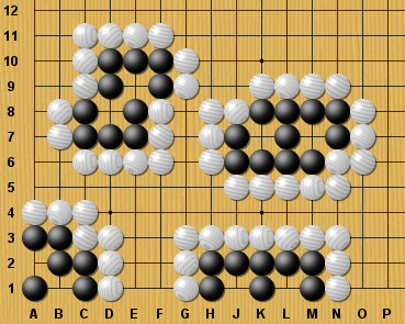 Examples of two eyes